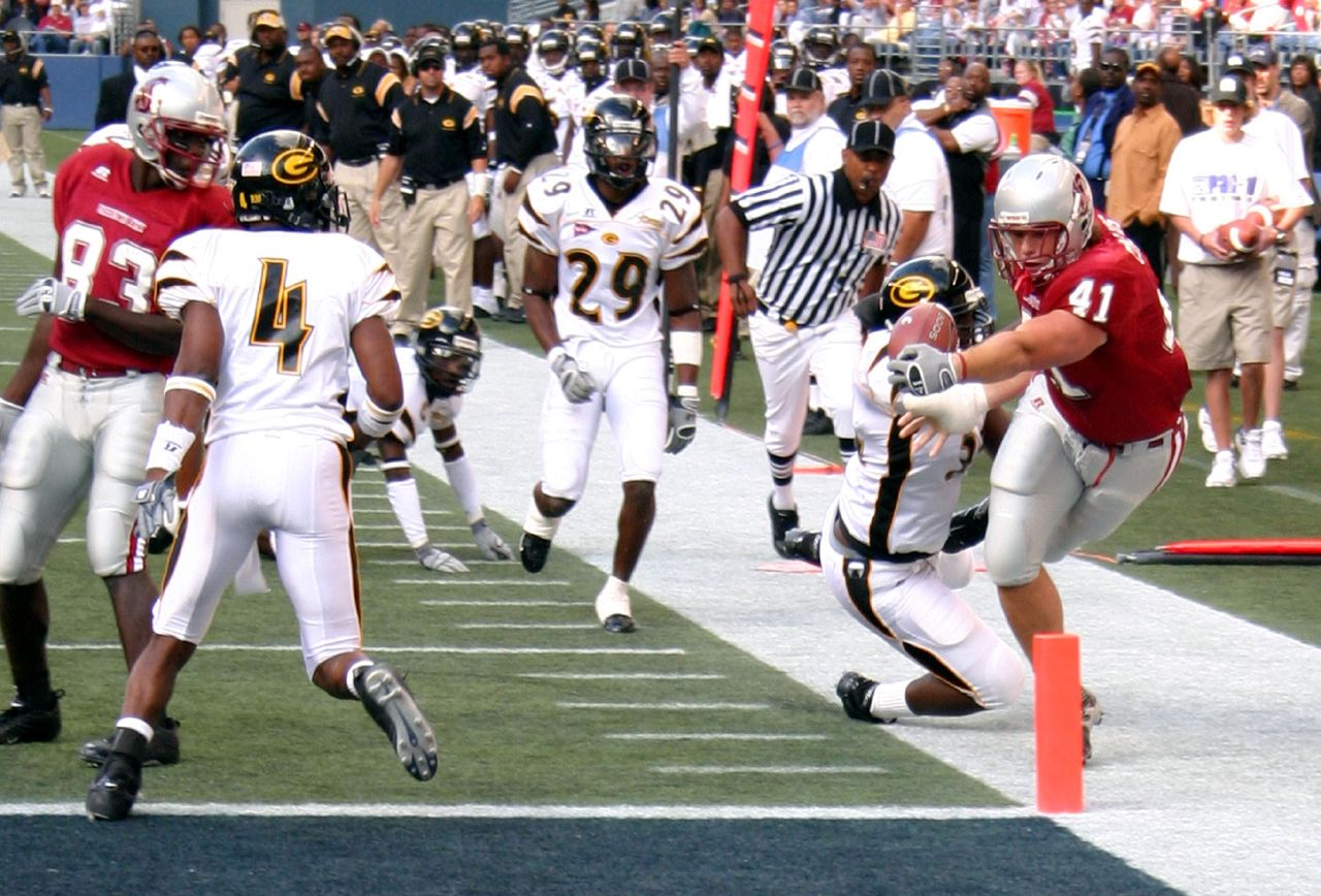 Washington St vs Grambling